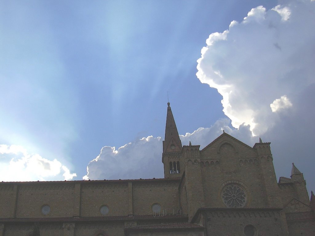 Basilica di Santa Maria Novella, side view (I think since photo taken outside train station) in Florence, Italy (Firenze). Sun in clouds over church.